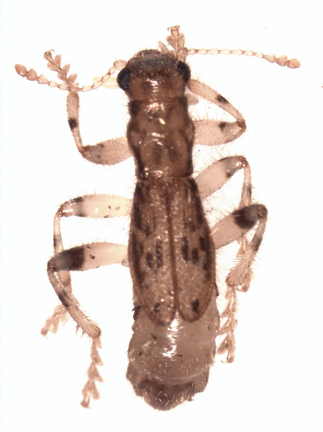 adult Lemidia aptera